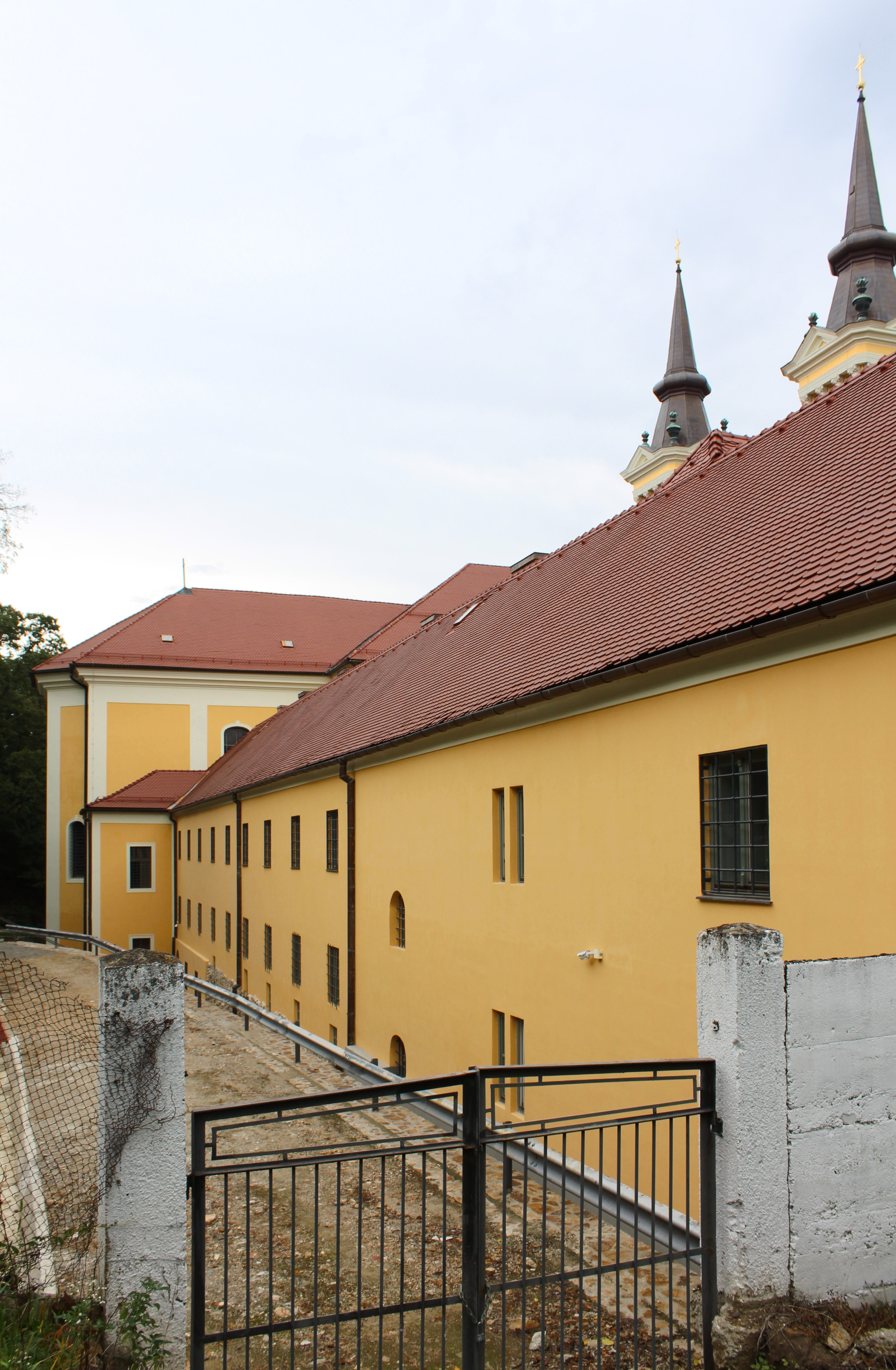 The NW housing of Maria Radna Monastery, Lipova, Romania.